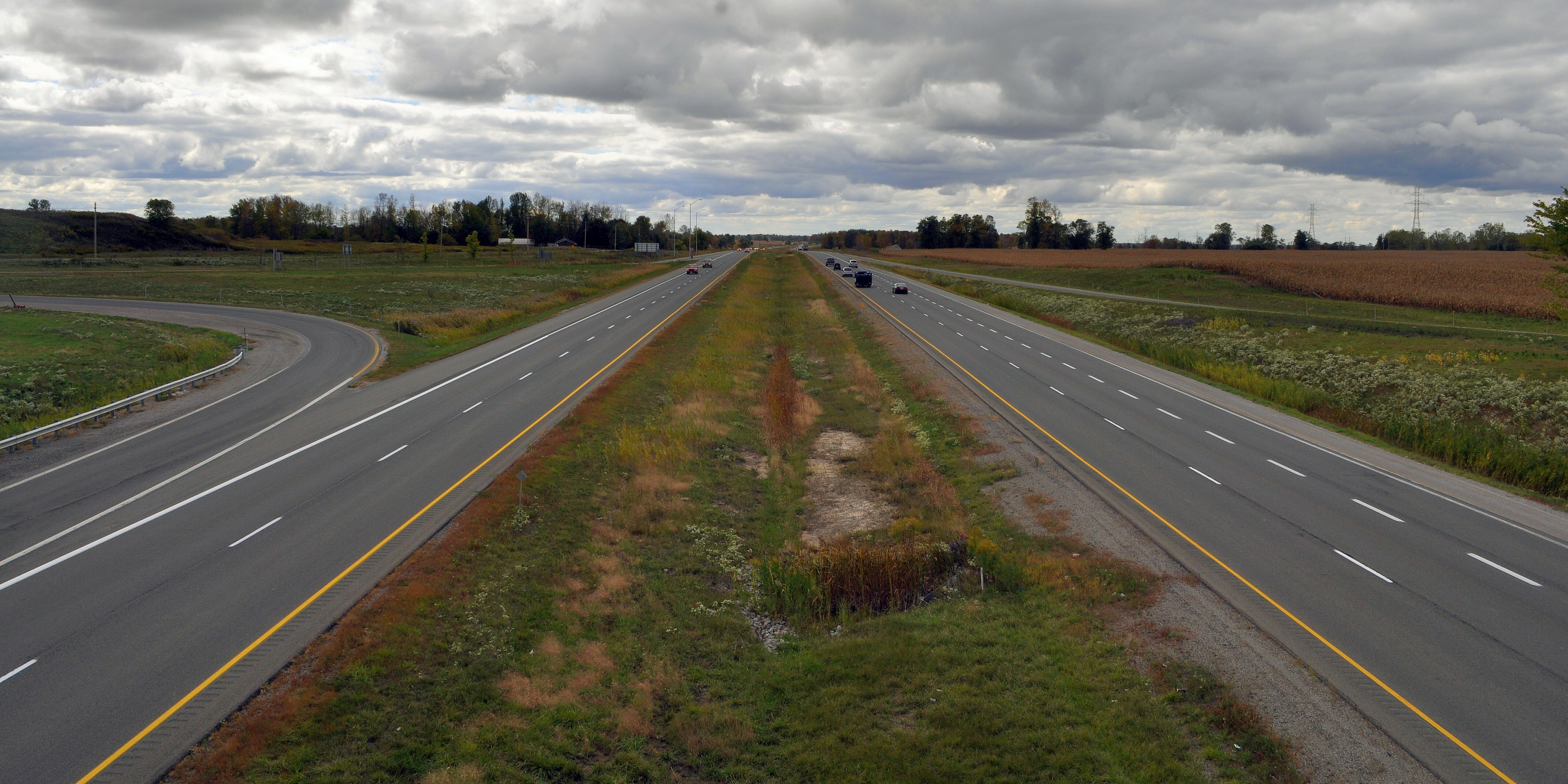 Centreline photo of a controlled-access highway in Canada.